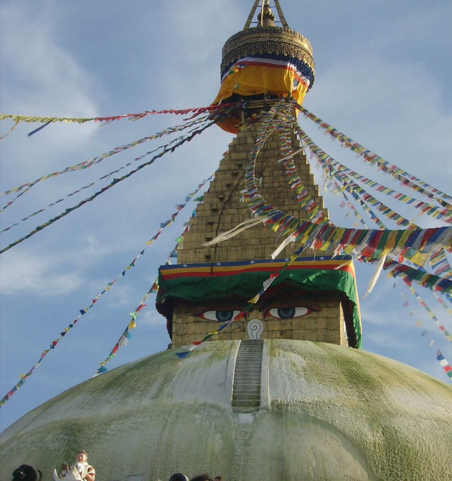 Boudhanath, one of the holiest Buddhist sites near Kathmandu, Nepal.